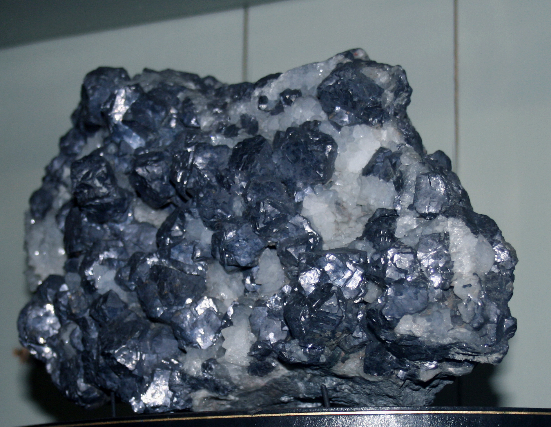 Mineral galena, chemical composition: PbS, from collection of National Museum, Prague, Czech Republic, originally from Czech Republic